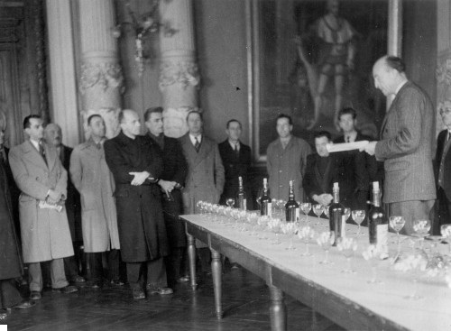 Banquet de soutien aux soldats